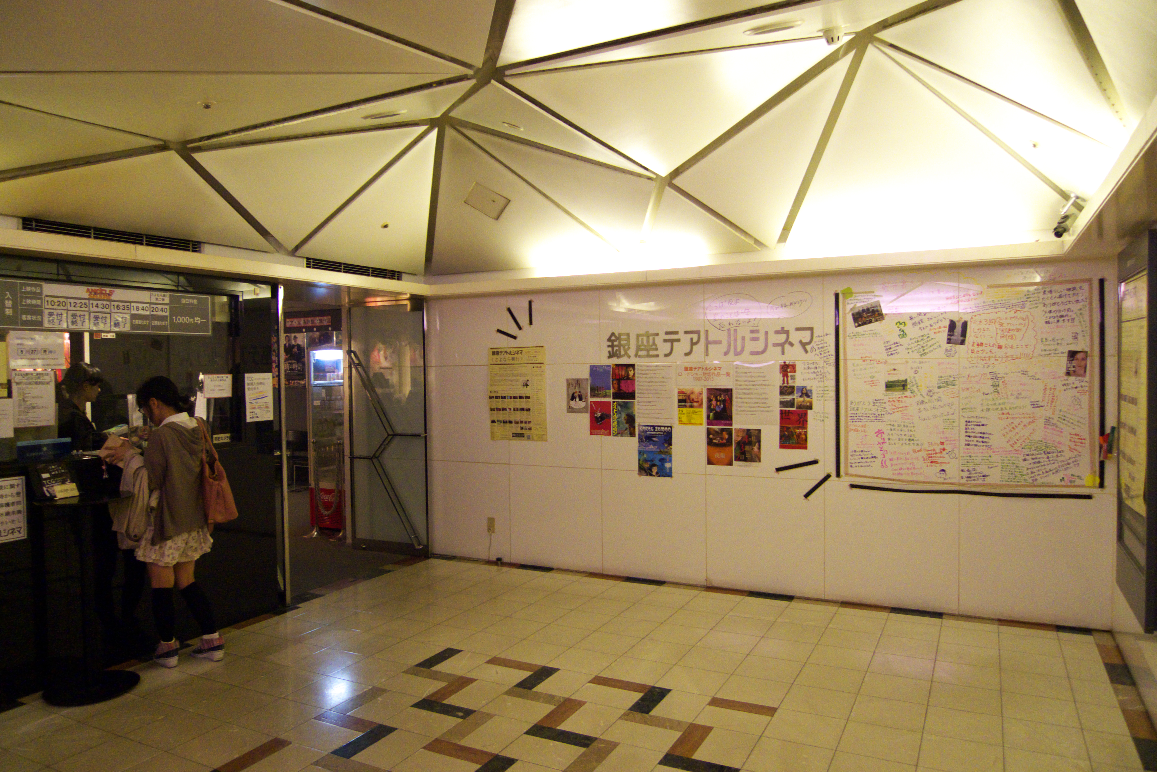 Ginza Theatre Cinema in Tokyo, Japan, prior to its closure in May 2013. Farewell messages have been written on the wall